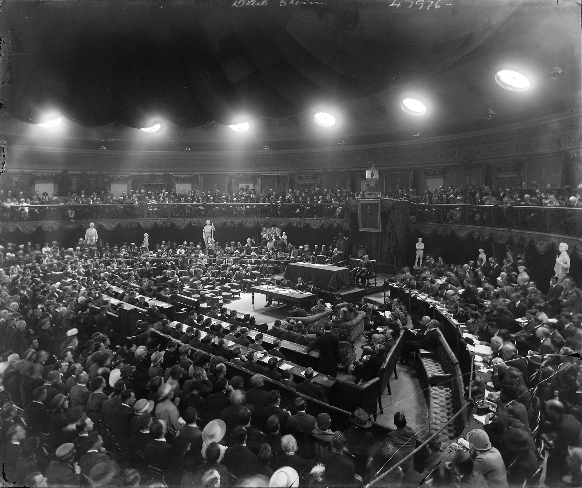 [/photos/97197821@N07/ Beara Peninsula] or should that be alusnineP araeB, tells us in the first instance that our photograph is reversed as evidenced by the Left "Red Hand of Ulster" and the words Lord Mayor. All agreed quickly that he was correct in his observations. [/photos/129555378@N07/ sharon.corbet] builds the story of this photo, we learn that this is not the first sitting of the Second Dail which took place on 16th August 1921 and with a little help from [/photos/79549245@N06/ DannyM8] they reach an agreed position that this photo was probably taken later in the month of August 1921 with the 26th the most probable. Sharon also discovered that this photo is used in a few places on the web (see links below) as being a photo of the First Dail (1919). Both Sharon and Danny strongly believe that this is not the case. "There are two other Keogh photos which look to be the same occasion: Ke 220 and Ke 219. (Both of which are the right way round.) Ke 219 is the one which turns up as the First Dail. But it's in any case not the very First Dail session, at least if An Post can be believed. A lot of the other sessions were private, so I'm beginning to think that at some point Ke 219 was identified as the First Dail, and it's been labelled like that ever since" If our dates are correct, then the main topic of the August 1921 sessions centered around negotiating a framework for the meetings in London which eventually delivered the Treaty. Photographer: Brendan Keogh Collection: The Keogh Photographic Collection Date: August 1921 NLI Ref: Ke 221 You can also view this image, and many thousands of others, on the NLI’s catalogue at